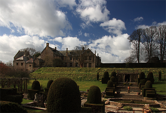 Mapperton Manor House and Gardens The Italianate gardens at Mapperton to the rear of the manor house, one of Dorset's finest buildings.